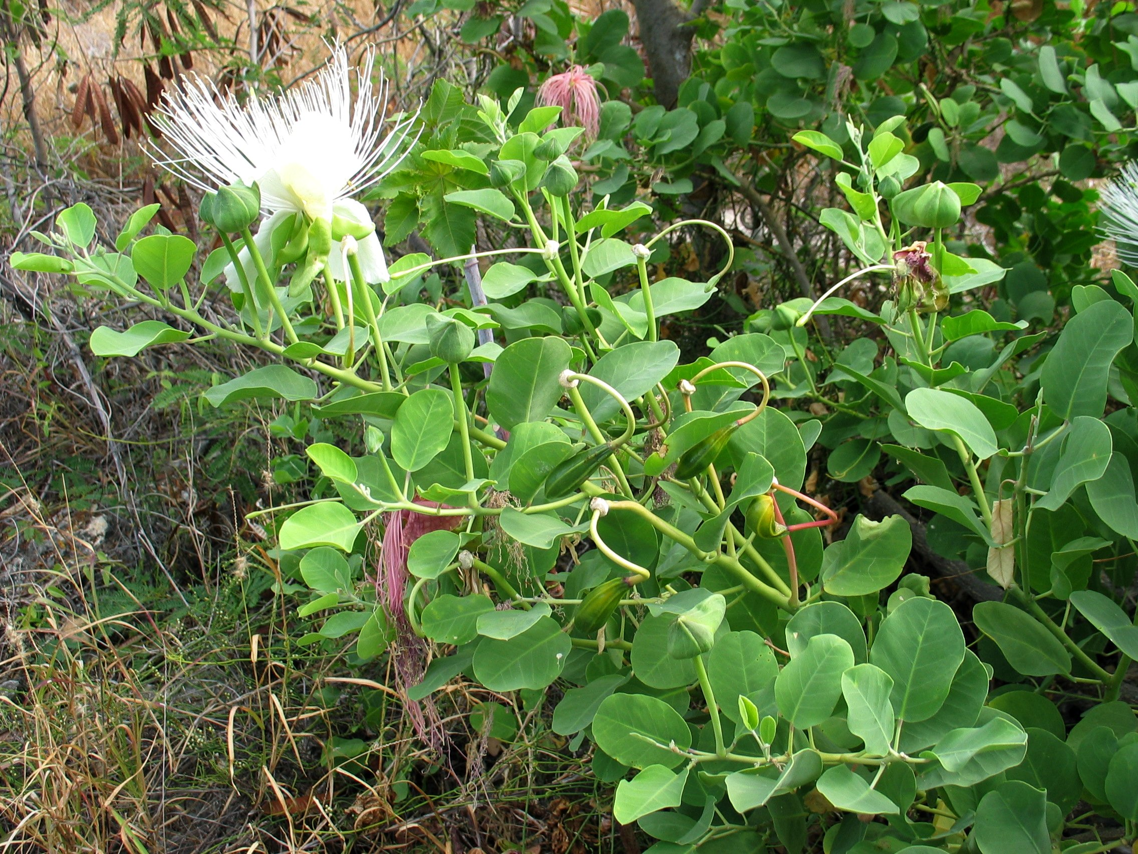 Maiapio, Pua pilo or Hawaiian caper Capparidaceae Endemic to the Hawaiian Islands Status: Vulnerable Kalaeloa, Oʻahu Flowering and fruiting stages; photo used for identification. NPH00006